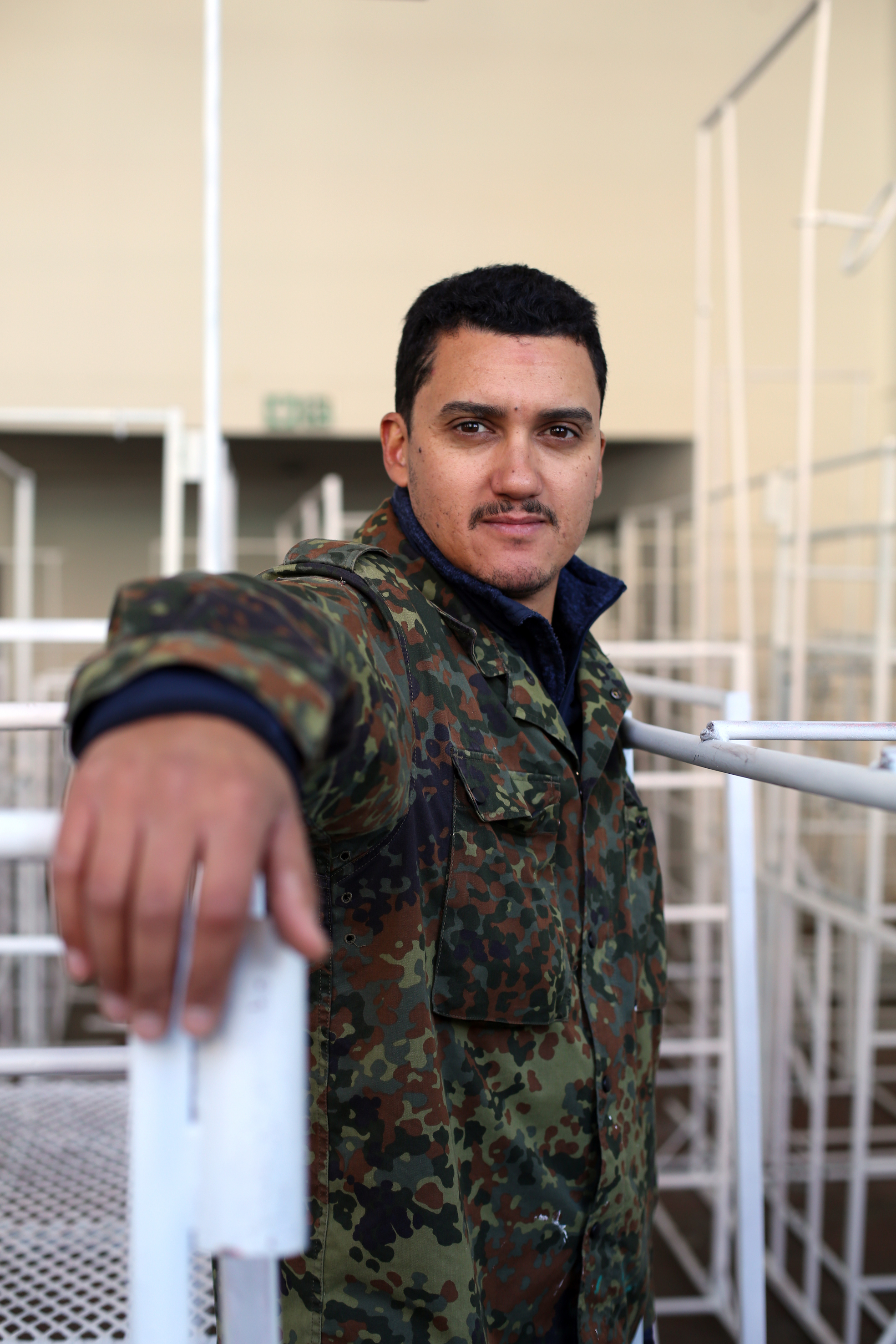 Recent photo of artist Robin Rhode, taken 2018